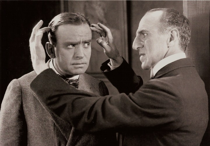 Douglas Fairbanks and Herbert Grimwood (1875 – 1929) (previously incorrectly identified as Frank Campeau) as Dr. Ulrich Metz in When the Clouds Roll By (1919) - cropped screenshot